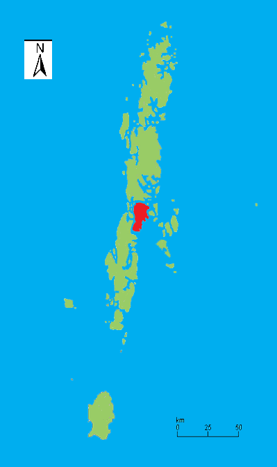 Outline map of the Andaman Islands, showing the location of Baratang Island (highlighted in red). Img created by CJLL Wright.